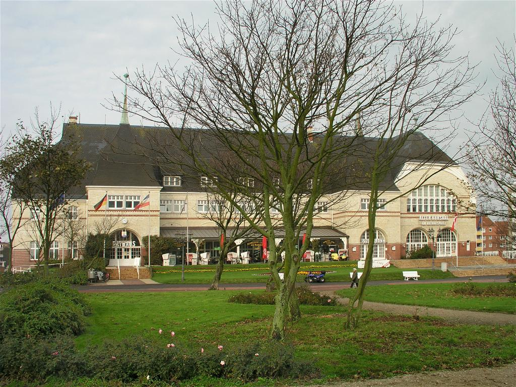 Westerland (Sylt) (Slesvic-Holstein, Germany), town-hall and casino , photo 2008